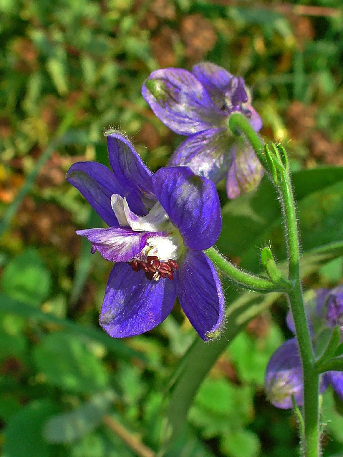 Delphinium staphisagria, Ranunculaceae, Lice-Bane, Stavesacre, flower. The seeds are used in homeopathy as remedy: Staphisagria (Staph.)